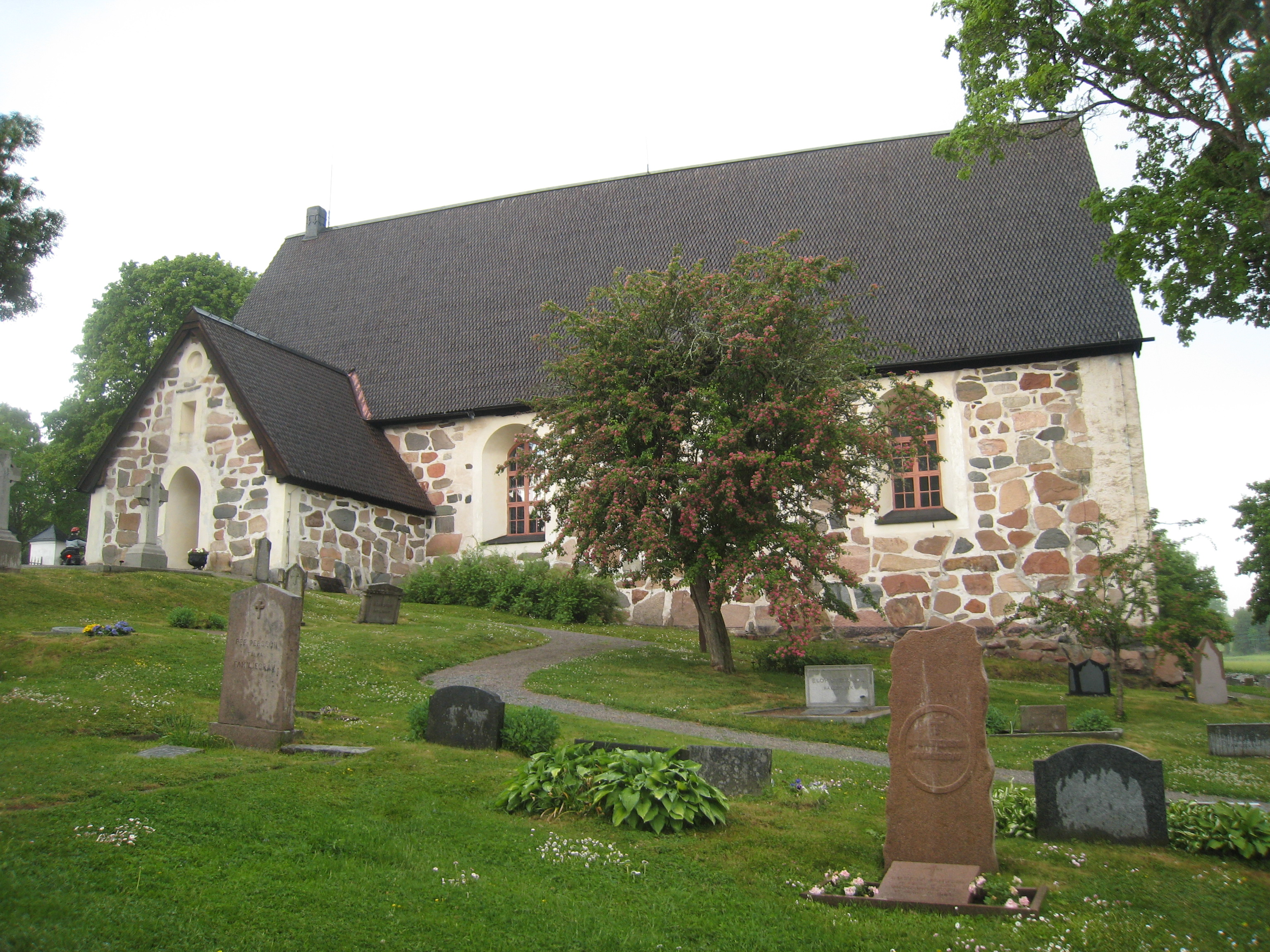 Häverö church, Norrtälje Municipality, Uppland, Sweden